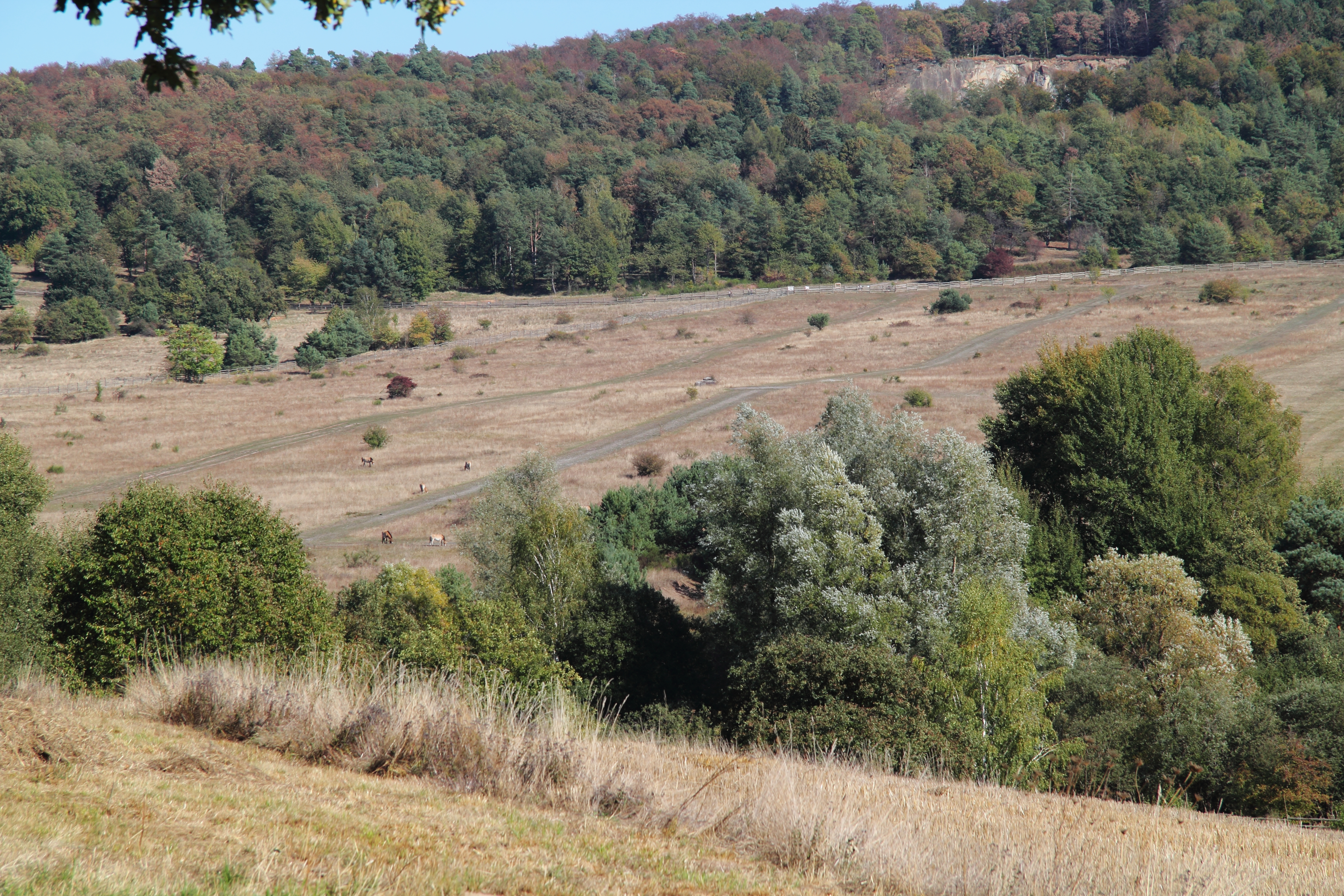 “National Nature Heritage Aschaffenburg”, nature trail in Aschaffenburg-Schweinheim (Bavaria/Germany) on the ground of a former military training area, WDPA ID 555521298